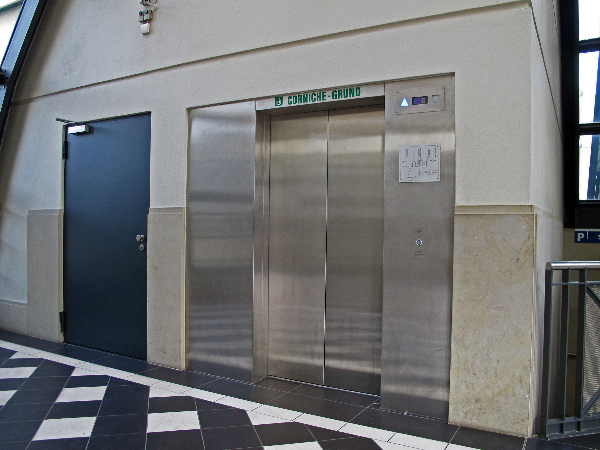 Entrance to the elevator Luxembourg-Grund on the Holy-Ghost-Plateau